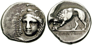 Lucania, Velia. Circa 350/340 - 320/310 BC. AR Stater (7.50 g). Obverse and reverse die signed by Kleudoros. Three-quarter facing head of Athena, head turned slightly left, wearing winged and crested Phrygian helmet, ΚΛΕΥΔΩΡΟΥ (kledōrou) signed on front of bowl ΥΕΛΗΤΩΝ, lion left devouring prey; Φ below, monogram (of Kleudoros) between back legs.